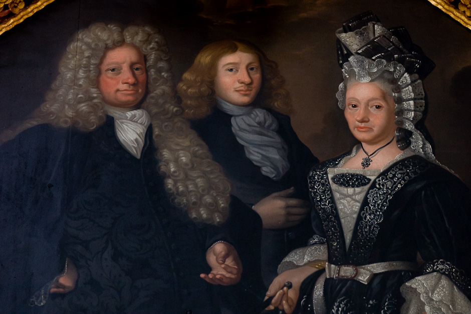 Enevold Nielsen Berregaard (1653-1731), Danish mayor, nobleman, and estate owner (left), with his wife Anne Søe (left), and her deceased husband Søren Jacobsen Lugge (died 1679). Excerpt from epitaph in Thisted Church.